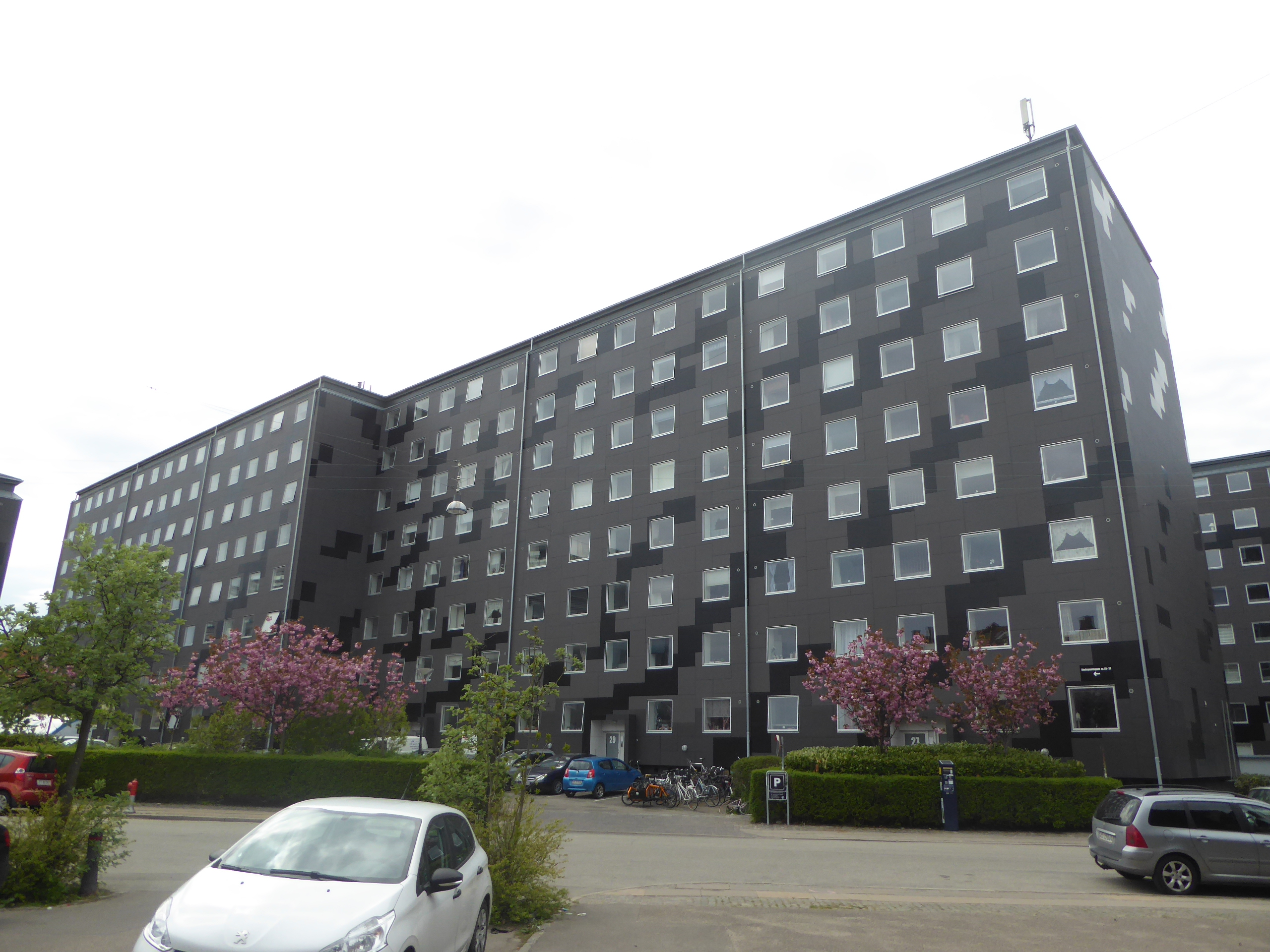 The housing cooperative A/B Studsgaarden at Studsgaardsgade in Østerbro in Copenhagen.